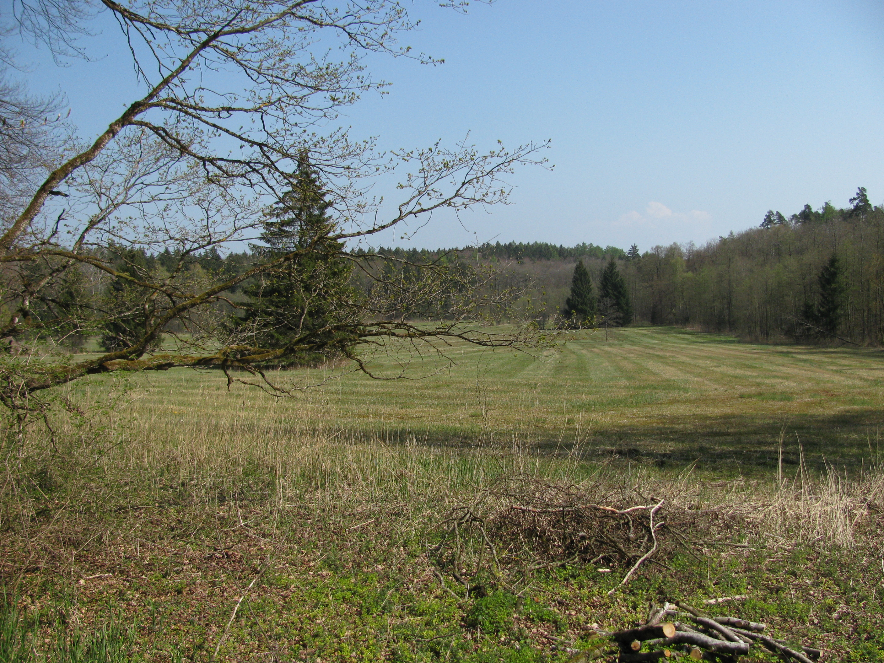 Germany - Baden-Württemberg - Bodenseekreis - Tettnang: nature reserve "Birkenweiher"